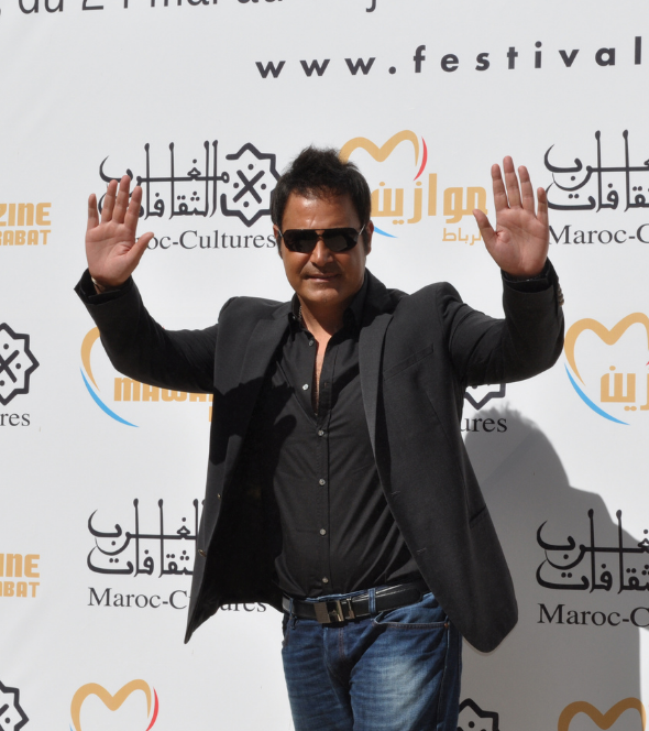 Lebanese singer Assi El Helani gave attending the 12th edition of the Mawazine music festival in Rabat.